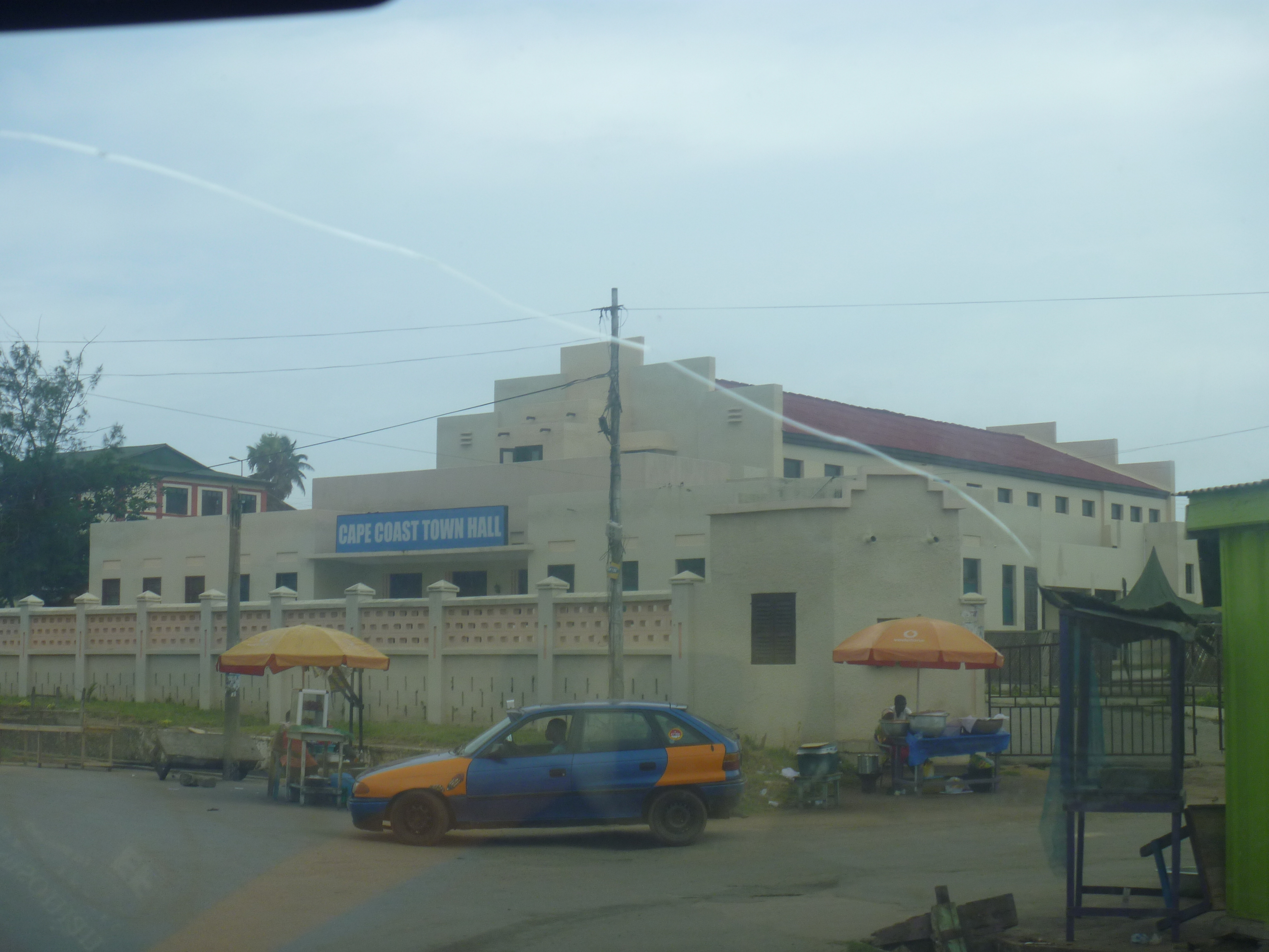 City hall in Cape Coast, Central, Ghana